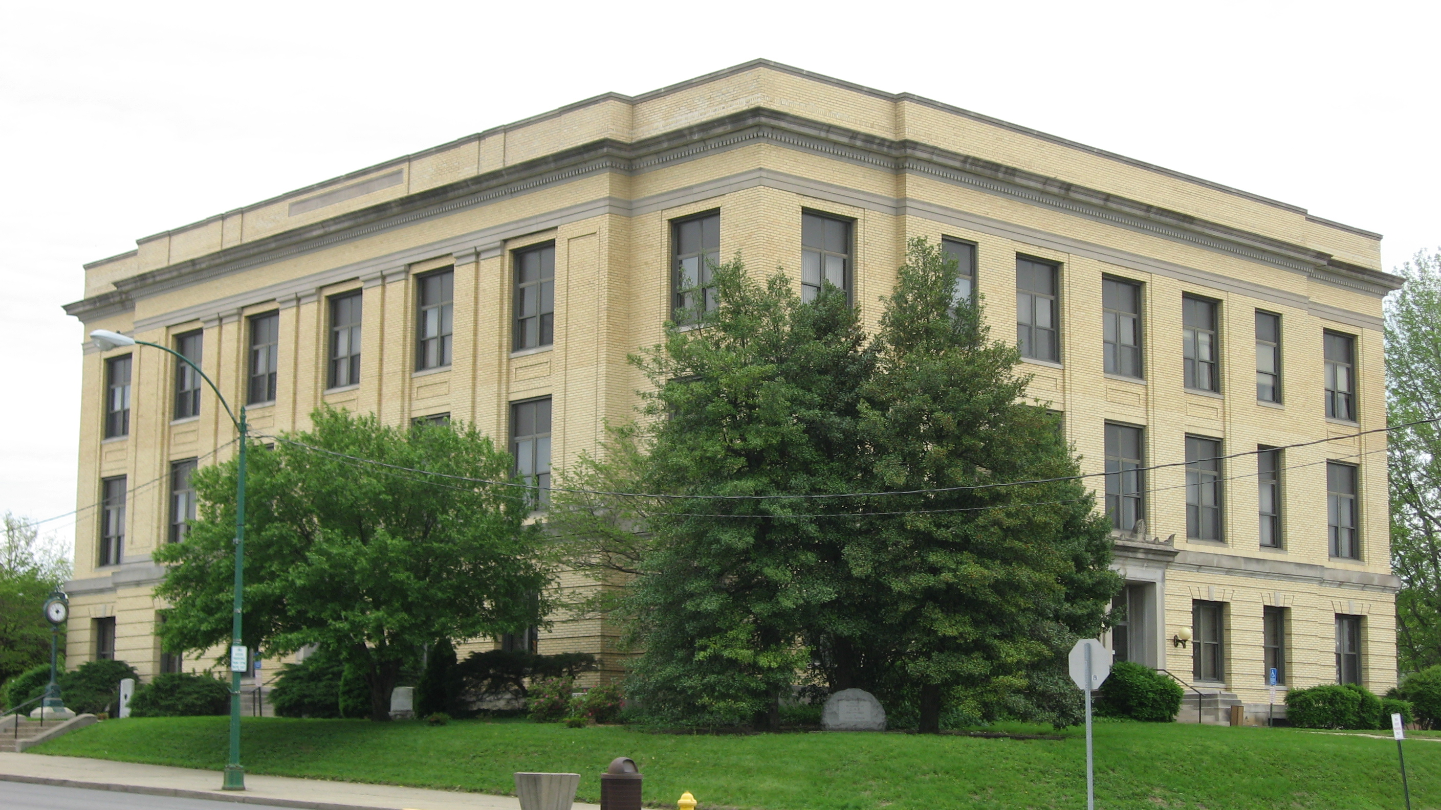 Northwestern (left) and southwestern (left) sides of the Pike County Courthouse, located in the central square of Petersburg, Indiana, United States. Built in 1922, it is listed on the National Register of Historic Places.